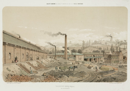 Valentin-Cocq Coal Mine in Jemeppe-sur-Meuse, Liège, Belgium, by Adolphe Maugendre